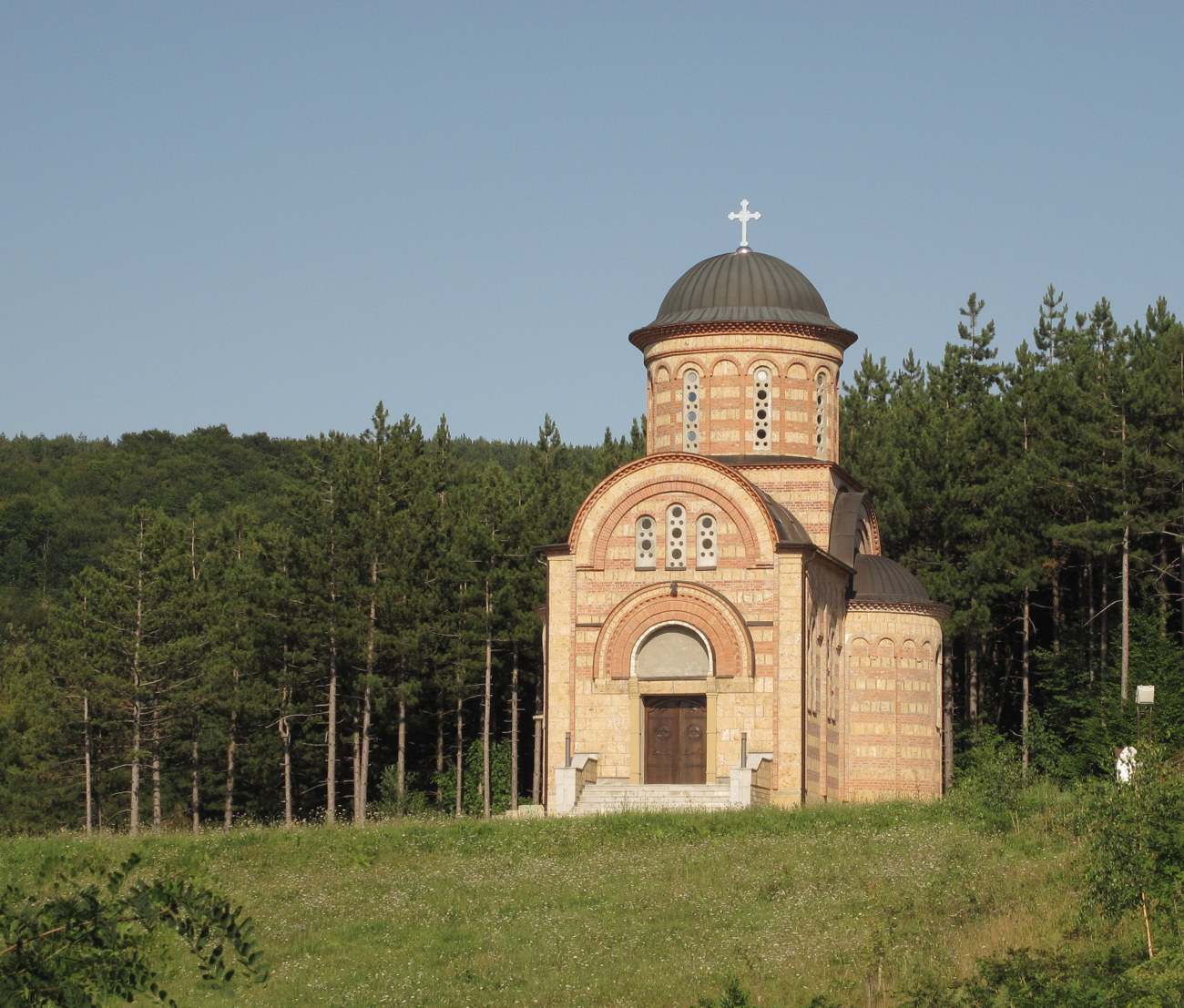 Church od Sv. Trojica, Duškovci, Serbia